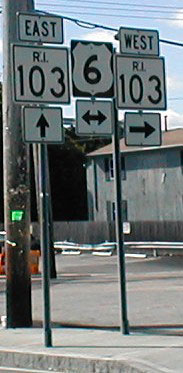 RI 114 south at RI 103 (old US 6). Taken October 7, 2001 by User:SPUI.